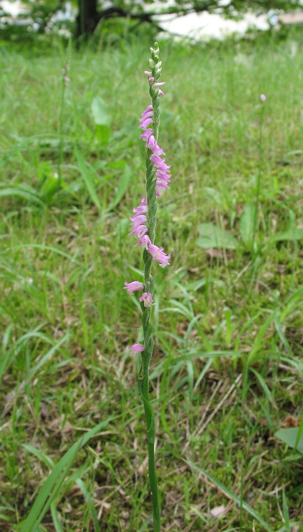 Photograph of Spiranthes sinensis, taken in Tama city, Tokyo, Japan.